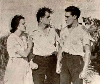 Still from the American film The Isle of Destiny (1920) with Hazel Hudson, Paul Gilmore, and Frank D. Williams, on page 4790 of the June 12, 1920 Motion Picture News.